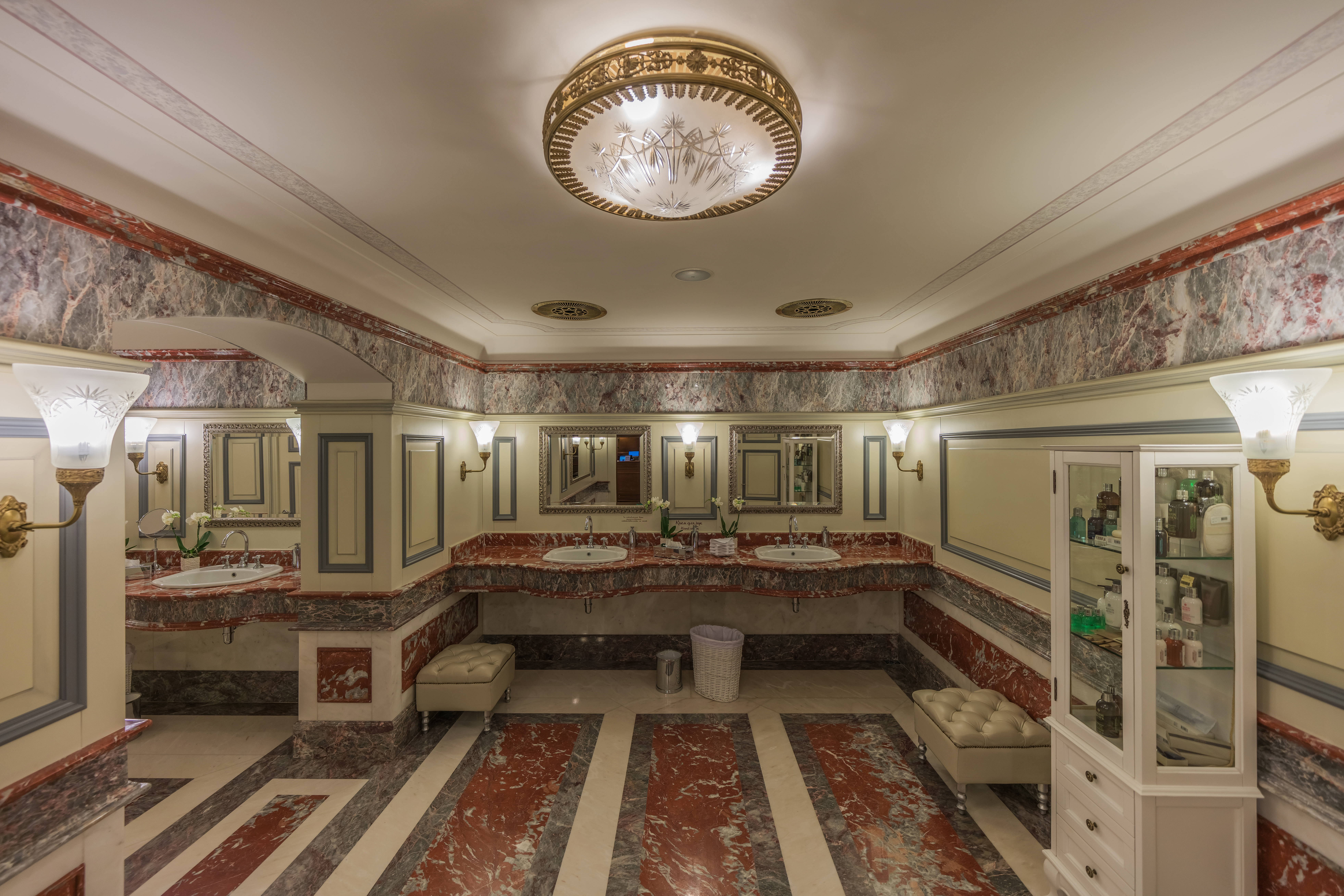 Male lavatory in historical public restroom of GUM store in Moscow, Russia